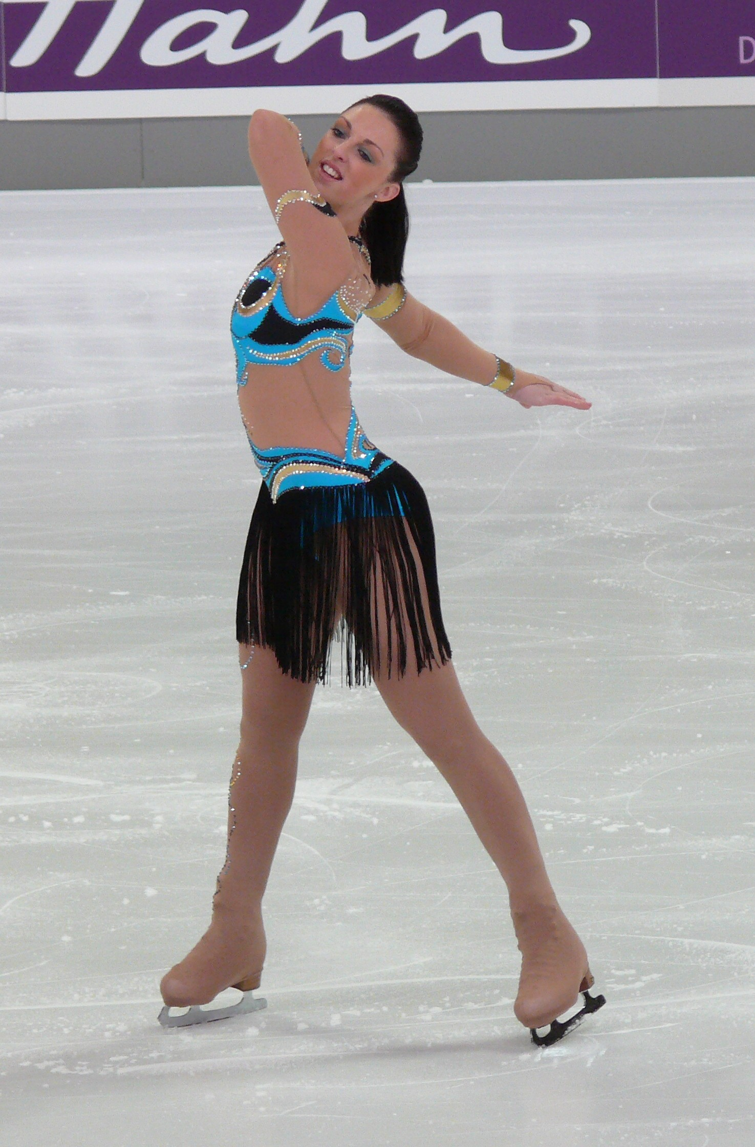 Jenna McCorkell (GBR) at her short program at the Nebelhorntrophy in Oberstdorf, Germany